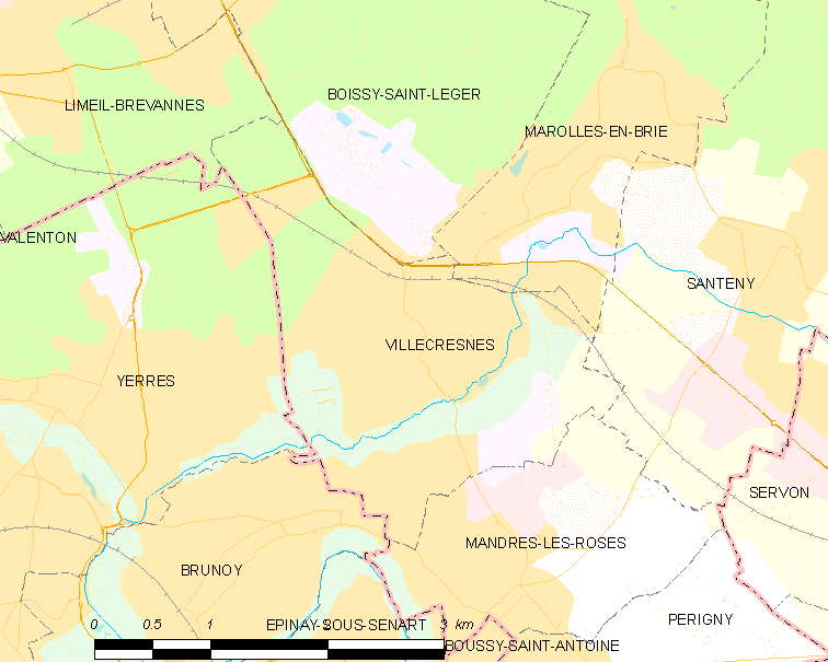 Map of French municipality Villecresnes